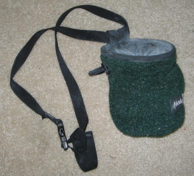 Chalk bag.